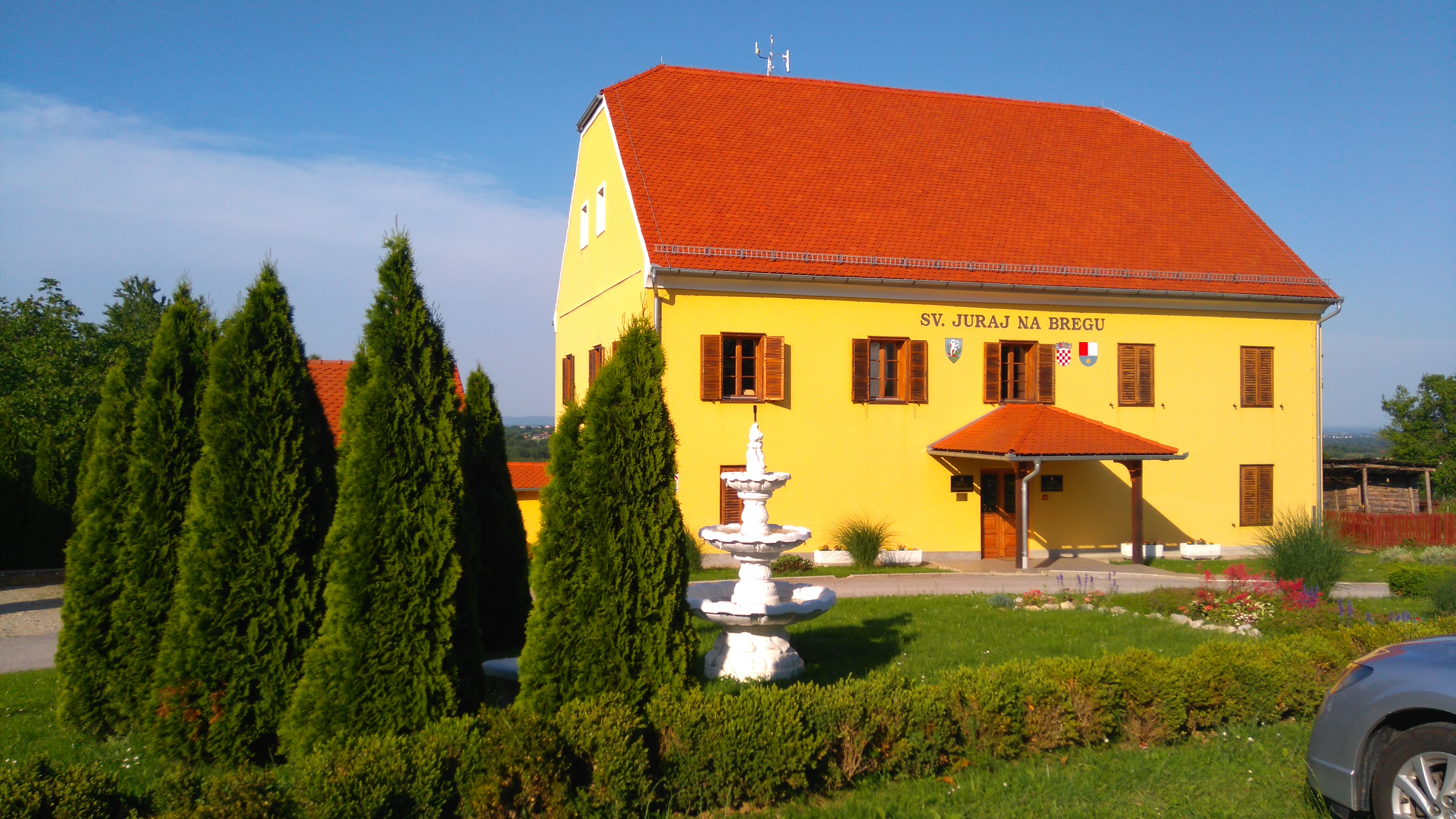 Sveti Juraj na Bregu municipality center.